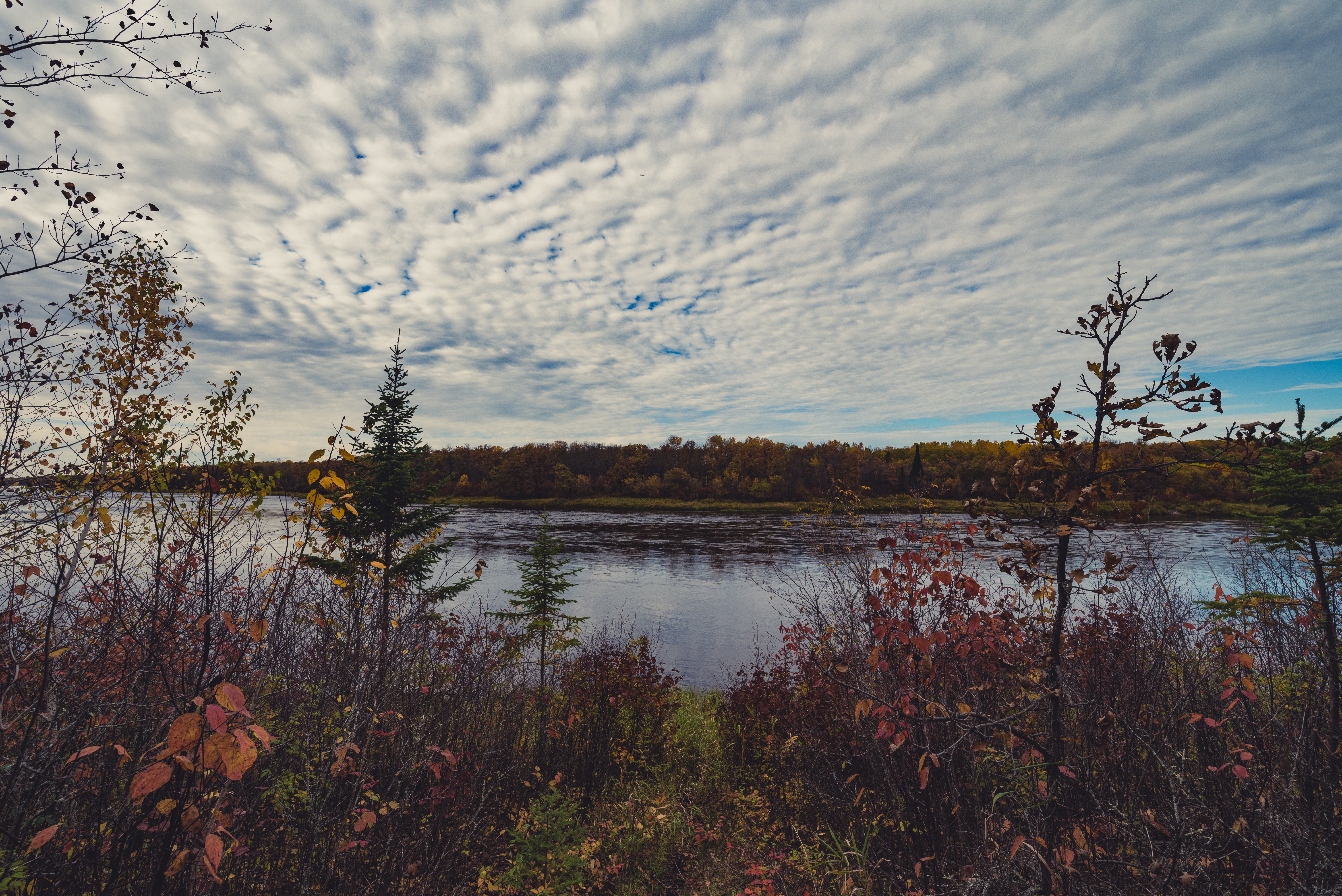 The Rainy River during autumn, as seen from Franz Jevne State Park in Northern Minnesota, Ontario, Canada in the distance.